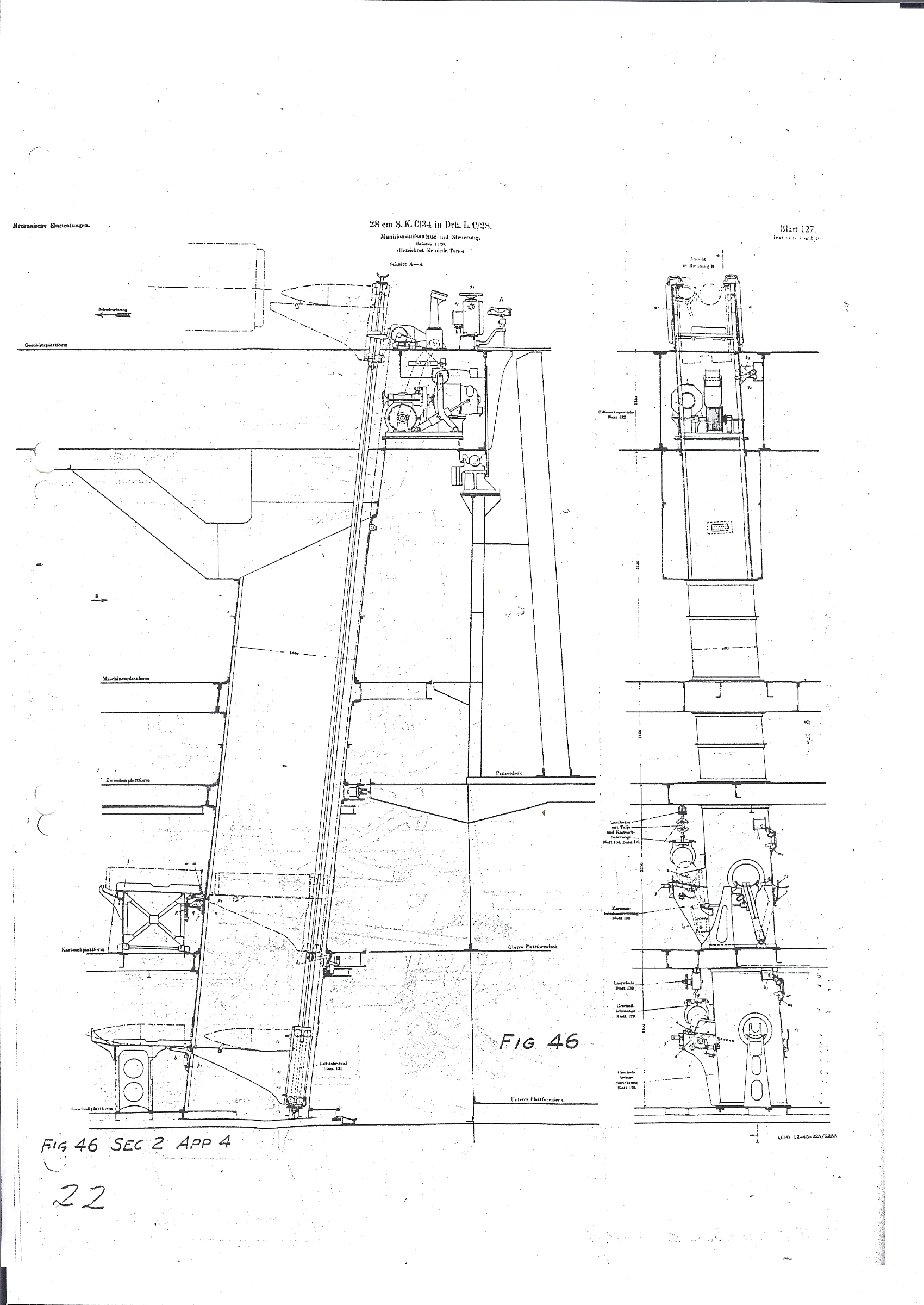 This is a drawing of the «munitionsaufzug» (ammunition lift) for the German 28 cm Schiffskanone C/34 gun, designed for the Dhr. L. C/28 armored turret. The C/34 guns were placed in the Dhr. C/28 gun turret, originally on the ships «Scharnhorst» and «Gneisenau». «Gneisenau» was damaged in an aerial attack in 1942, and her guns were placed ashore, at costal batteries. Two of the turrets, with at total of six guns, were placed in Norway, at Austrått and Fjell, of which the one at Austrått still remains as a museum today. The third turret was placed in Holland.